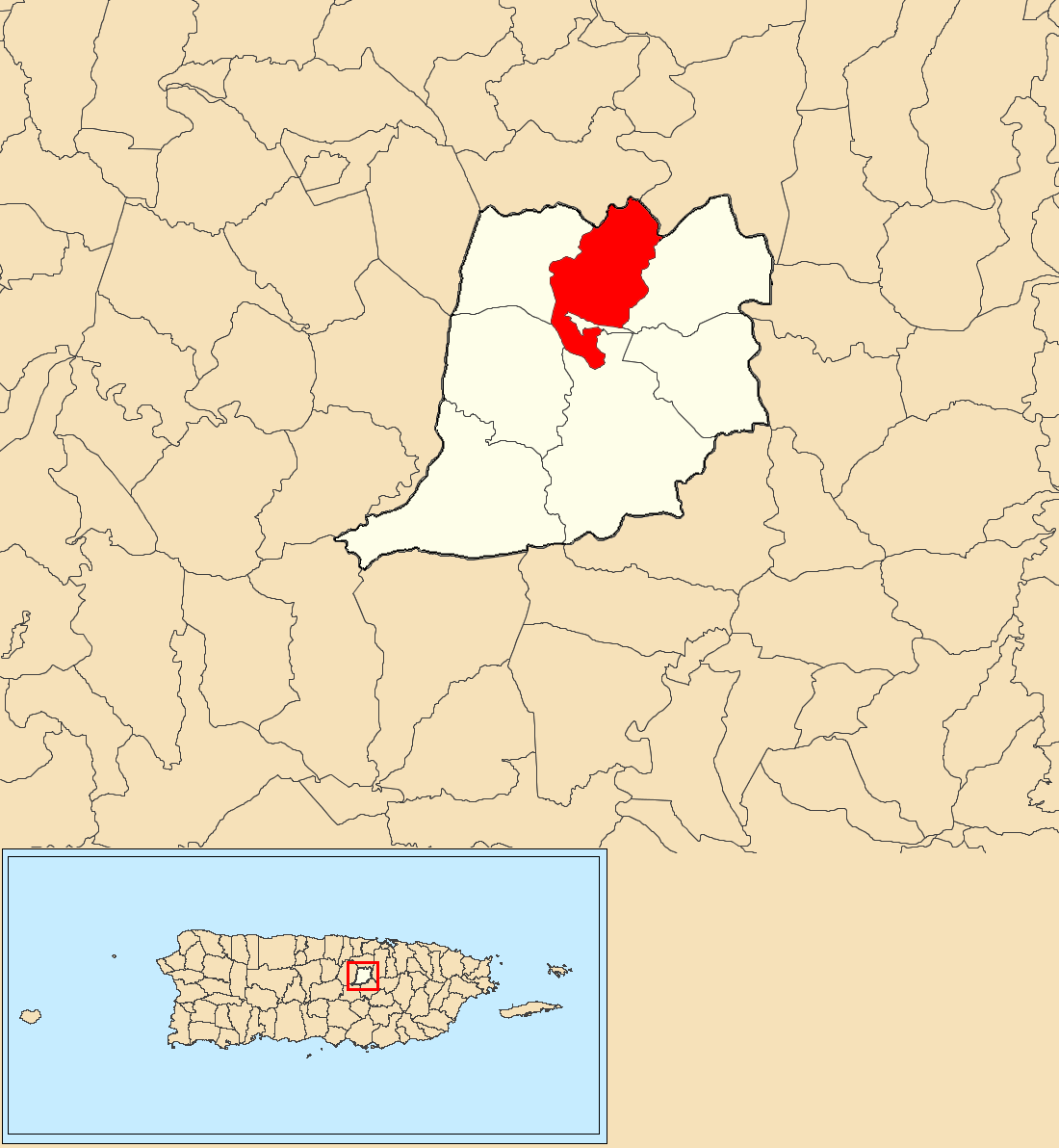 Achiote, Naranjito, Puerto Rico locator map